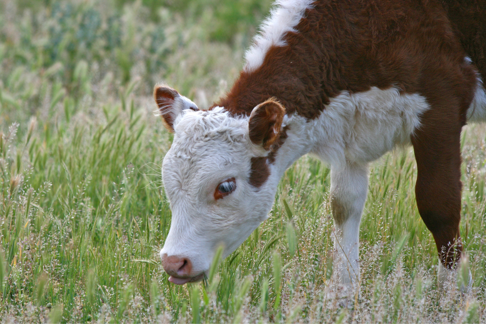 Portrait of an unmarked Hereford cattle calf (Bos taurus). Taken in Victoria, Australia.